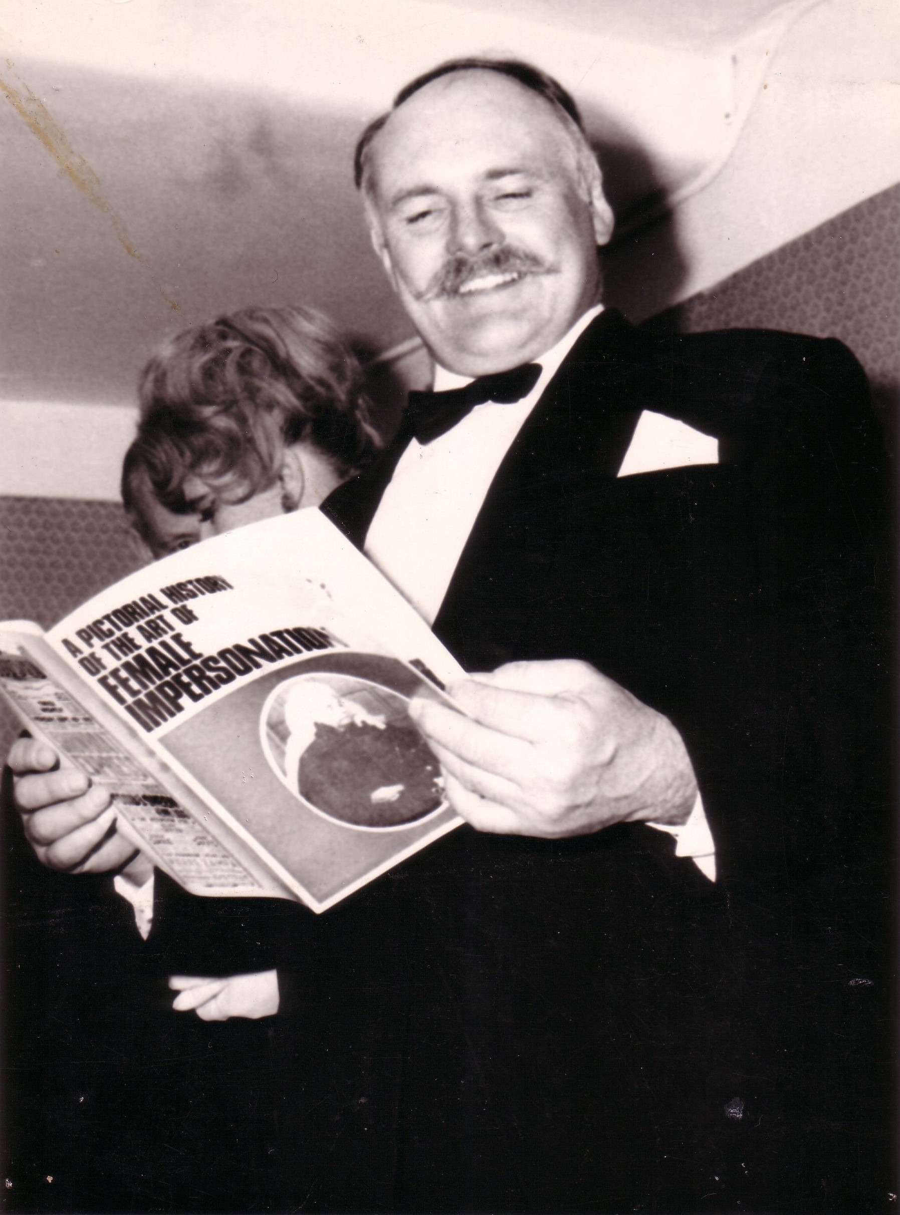 Jimmy Edwards at CHRIS SHAW's Book Launch